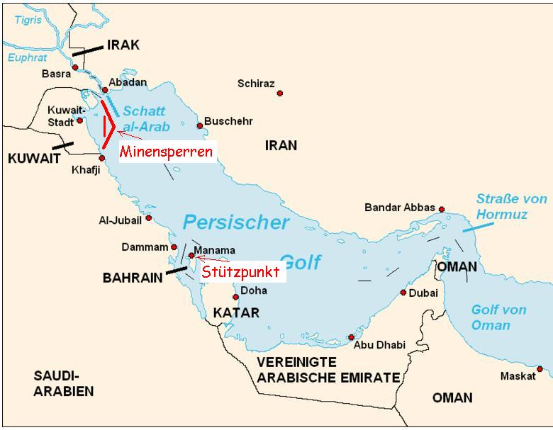 Map of Persian Gulf, Locations of Operation "Southern Flank"